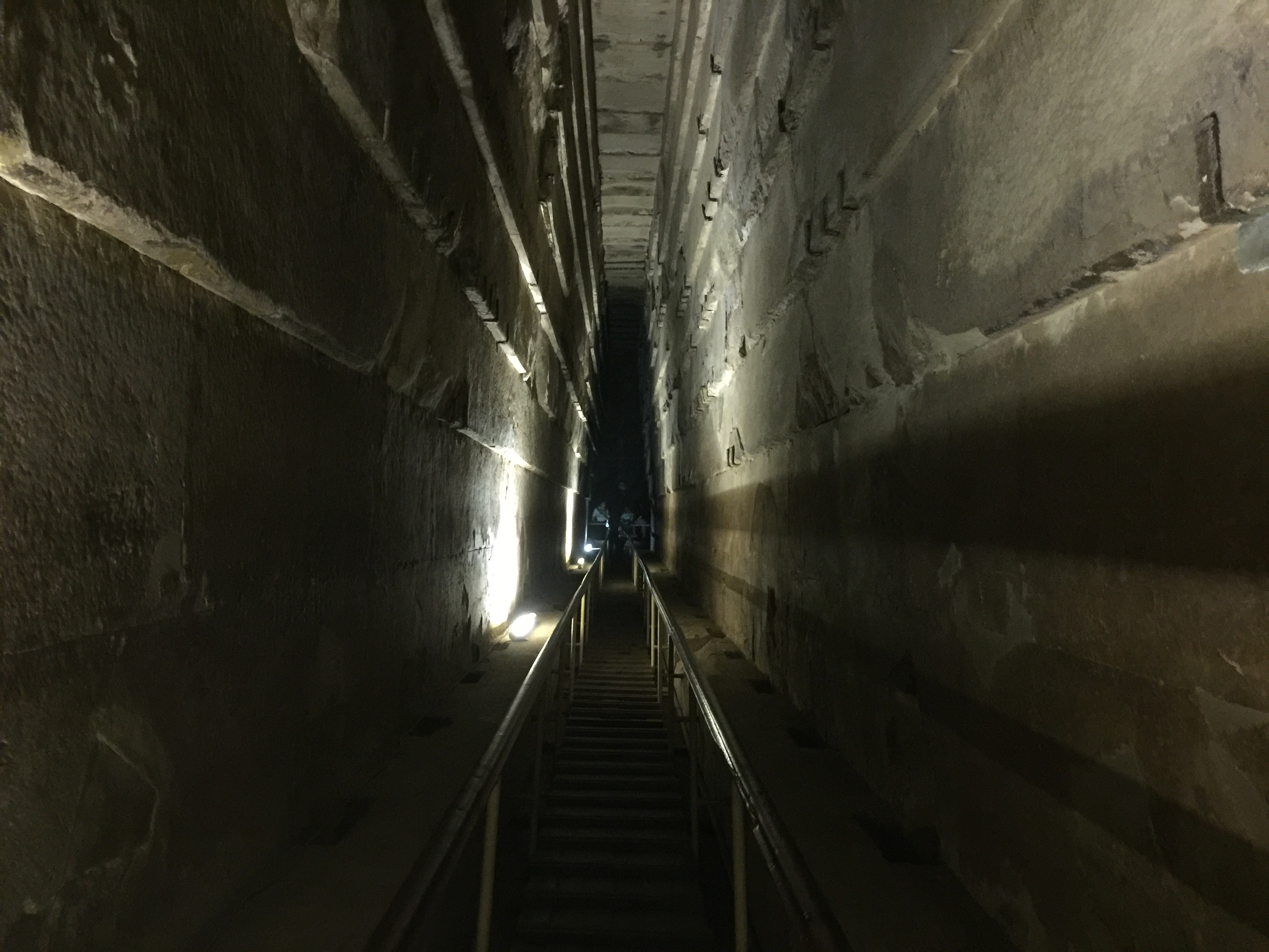 A view of the Great Pyramid of Giza Grand Gallery November 2015.